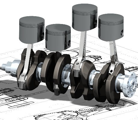 Solid model assembly created in NX (Unigraphics).